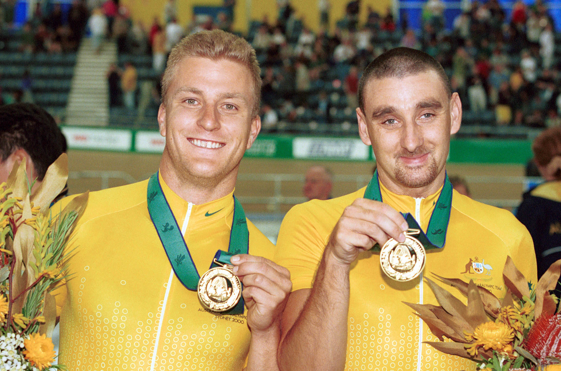 Australian track cyclists Darren Harry and Paul Clohessy show their gold medals won in the 2000 Sydney Paralympic Games Men’s Tandem Sprint